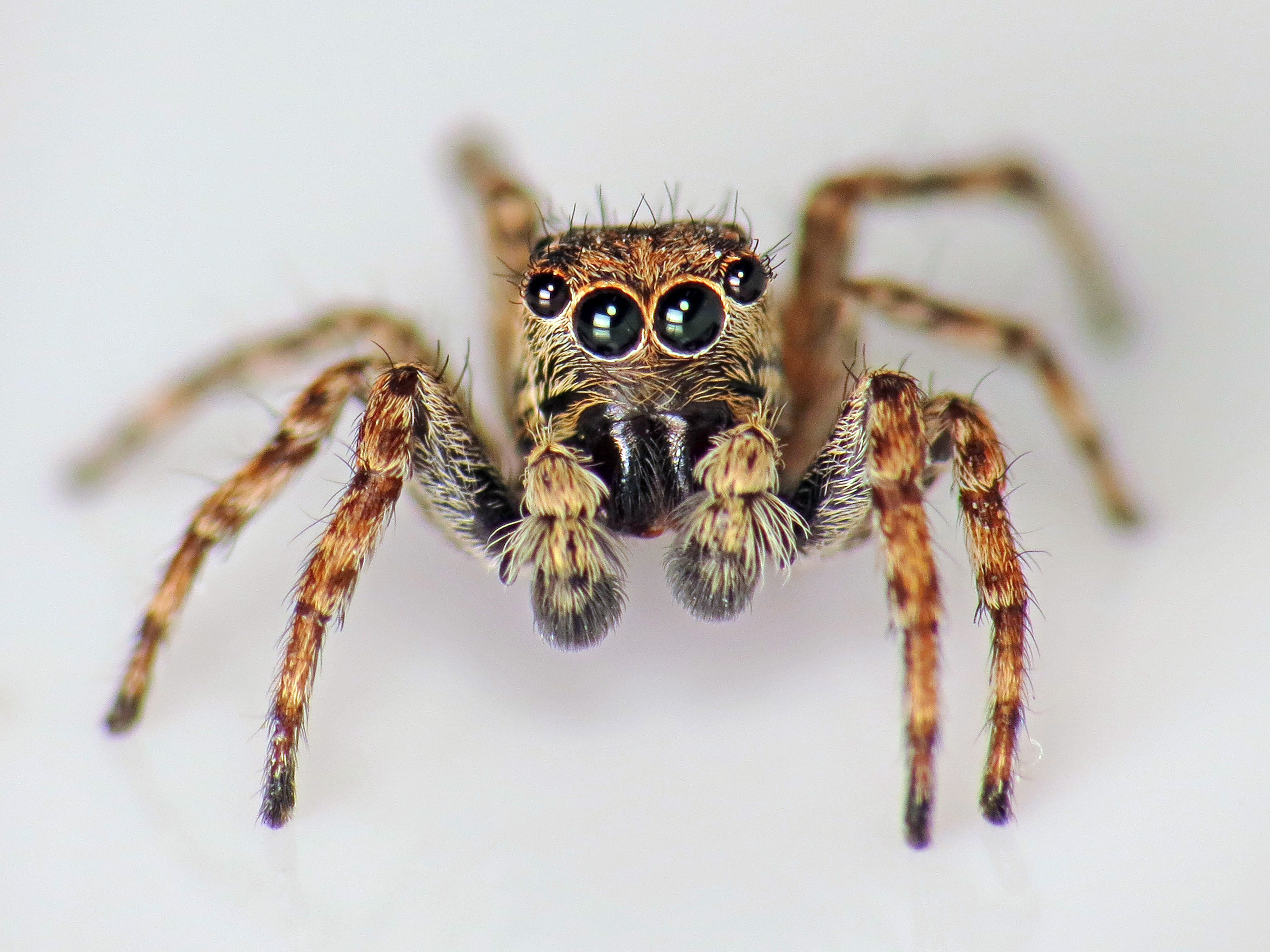 I found this little chap in my bath. This made a great place in which to take a few photos before releasing him in the garden. It is a Jumping Spider, but so far I don't know which species. Richard McMellon suggested this may be Pseudeuophrys lanigera, based on the legs, but subsequent photos have led to an ID of Sitticus pubescens.